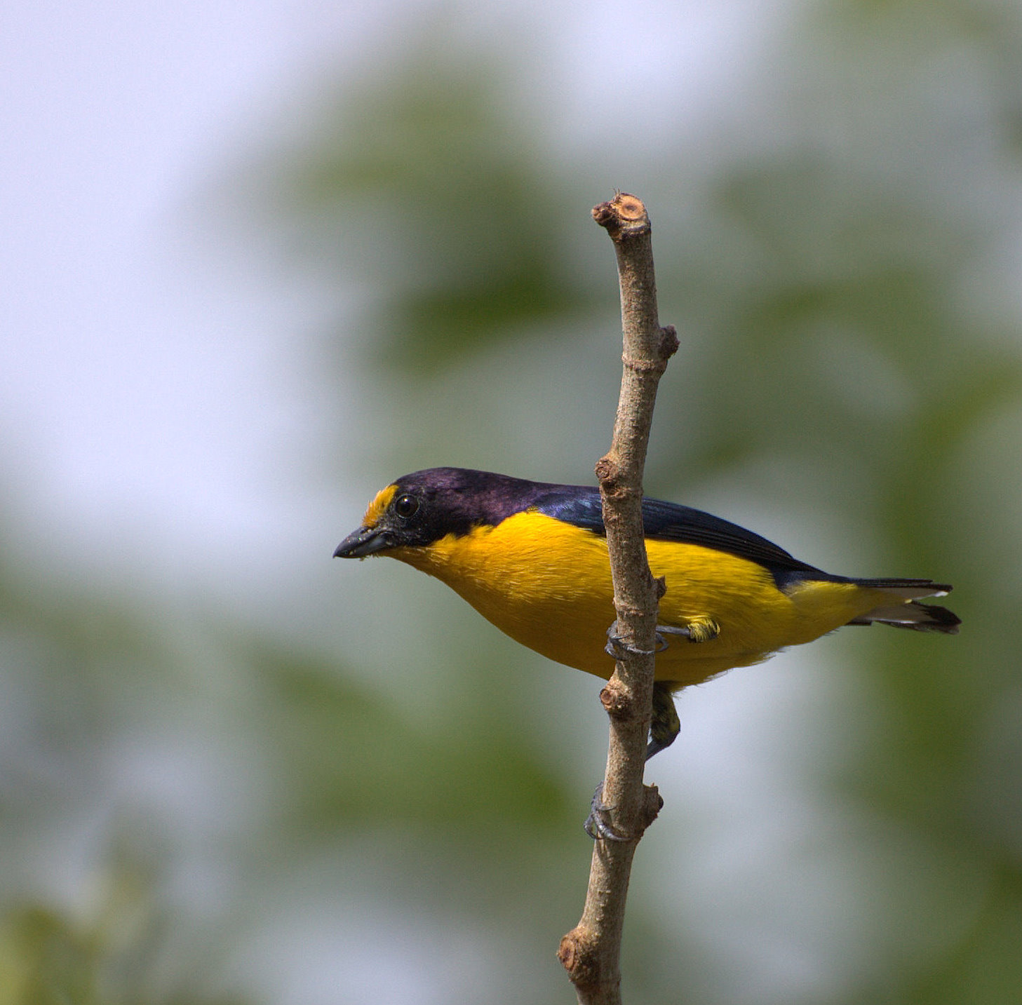 Violaceous Euphonia (Euphonia violacea). A male in Vale do Ribeira, Brazil.